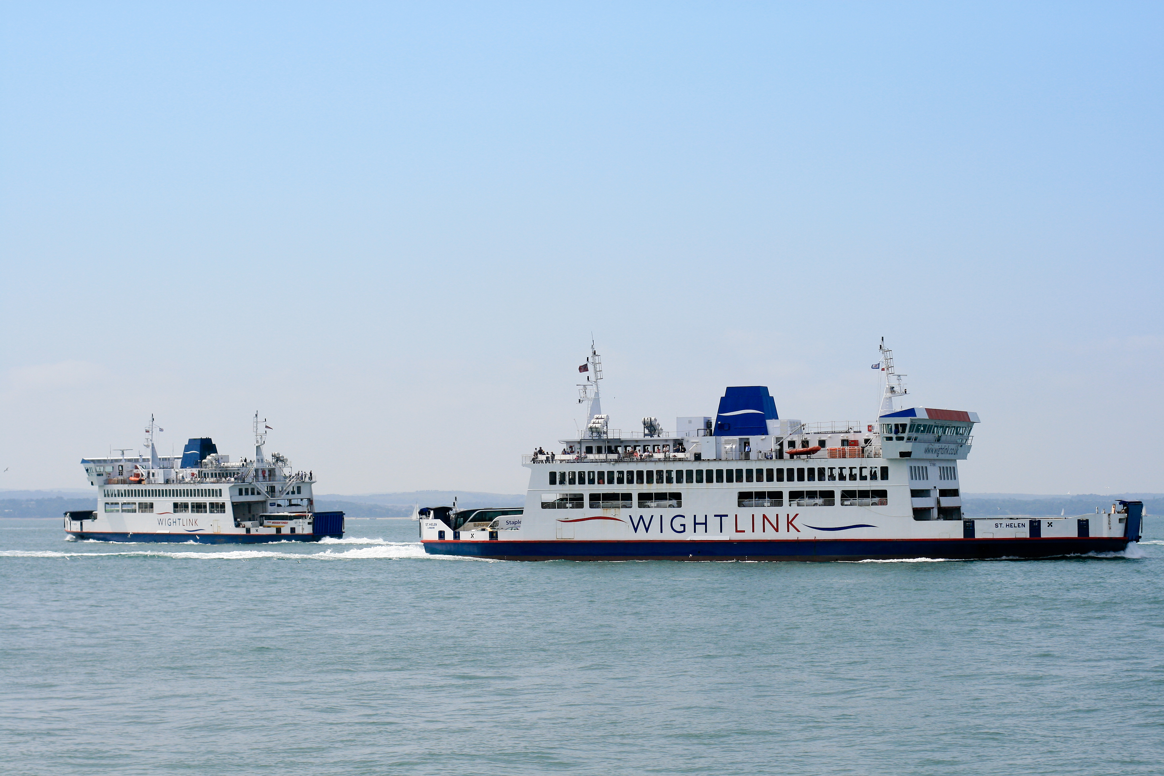 Isle of Wight Wightlink car ferry St Helen inbound to Portsmouth Harbour from Fishbourne on the Isle of Wight, UK, passing the outbound ferry St Faith at the entrance to the Swash Channel. Wikipedia editors are reminded that the copyright remains with the photographer, and that the terms of the Creative Commons (CC), Attribution (BY), Share Alike (SA) CC-BY-SA-3.0 that allow editors to reuse this image apply to Wikipedia editors also, as they do to other re-users of this image. Breaches of the licence terms are not only unlawful, but are also antisocial, in that breaches discourage photographers from making their images freely available to everyone without payment. Wikipedia re-users are also reminded of the license terms that derivatives of this image should not imply that the adaptation is endorsed or approved by the author or copyright holder. Neither should derivatives be presented as the creation of the author or copyright holder, while clearly stating that the adaptation is a derivative of the original. Attribution online should be in this format Brian Burnell. On the printed page, a simpler form is acceptable - example: "Image: Brian Burnell".